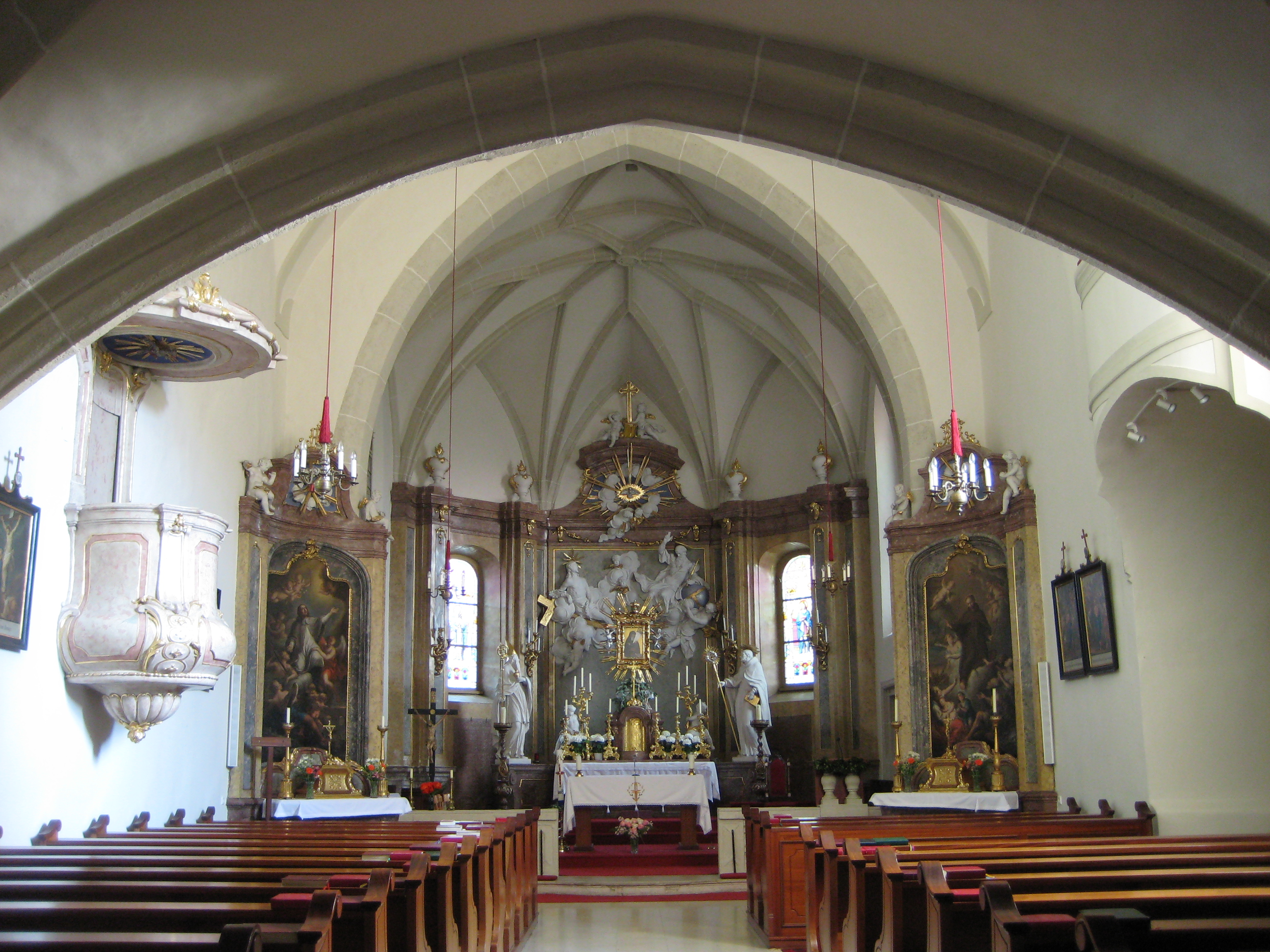 Schrattenthal